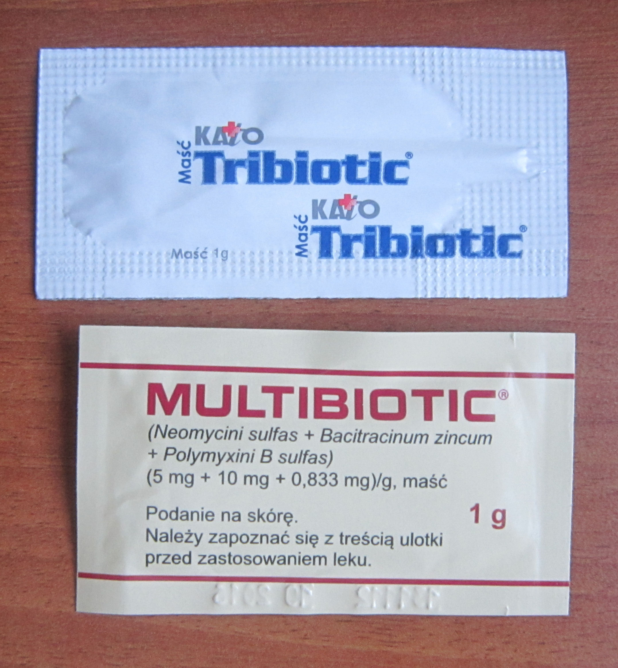 Tribiotic i Multibiotic Front